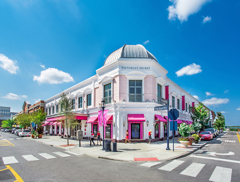 brand new Victoria's Secret opened Summer 2012